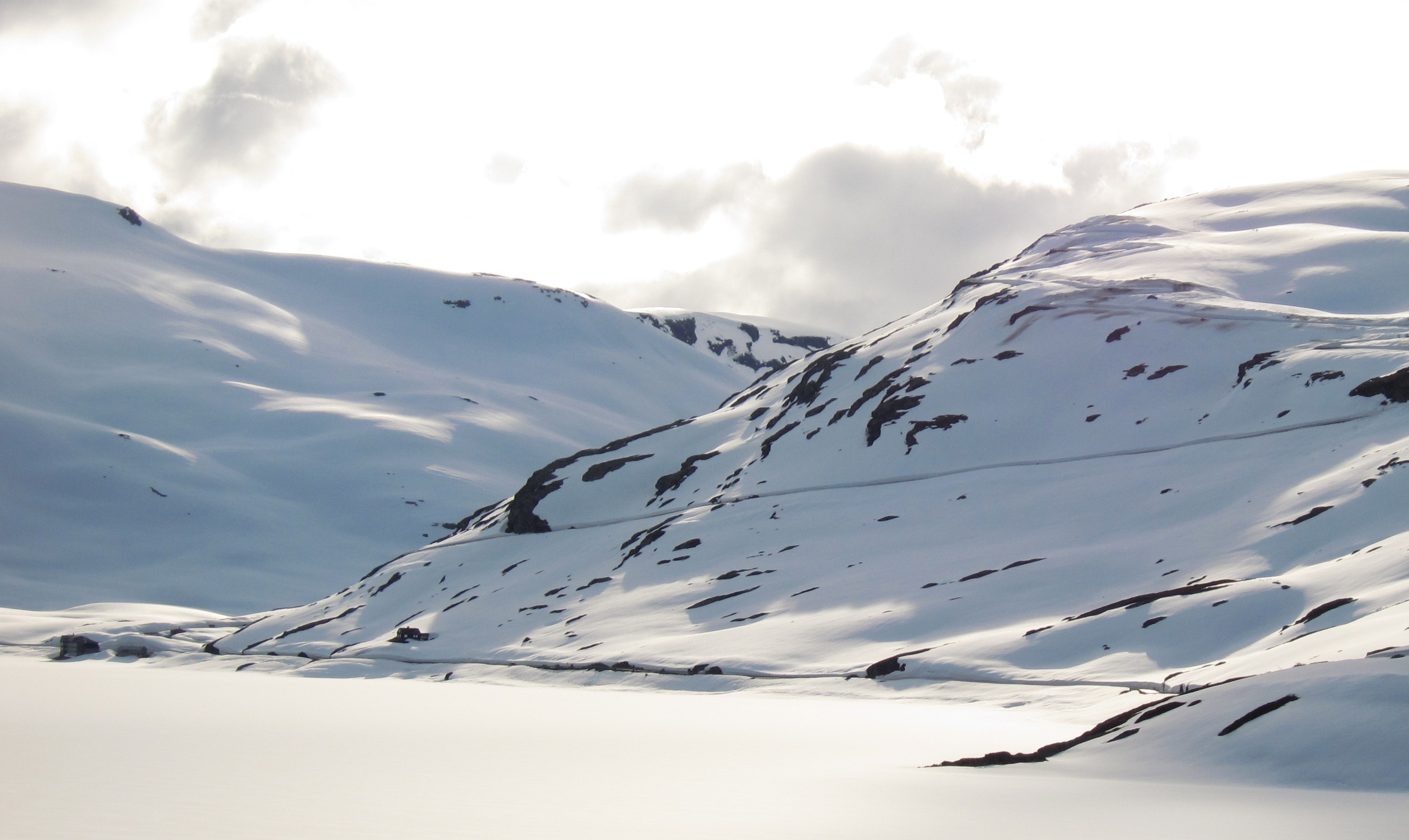 Geiranger road (mountain pass) at Djupvasshytta (1000 meters above sea) right after opening.